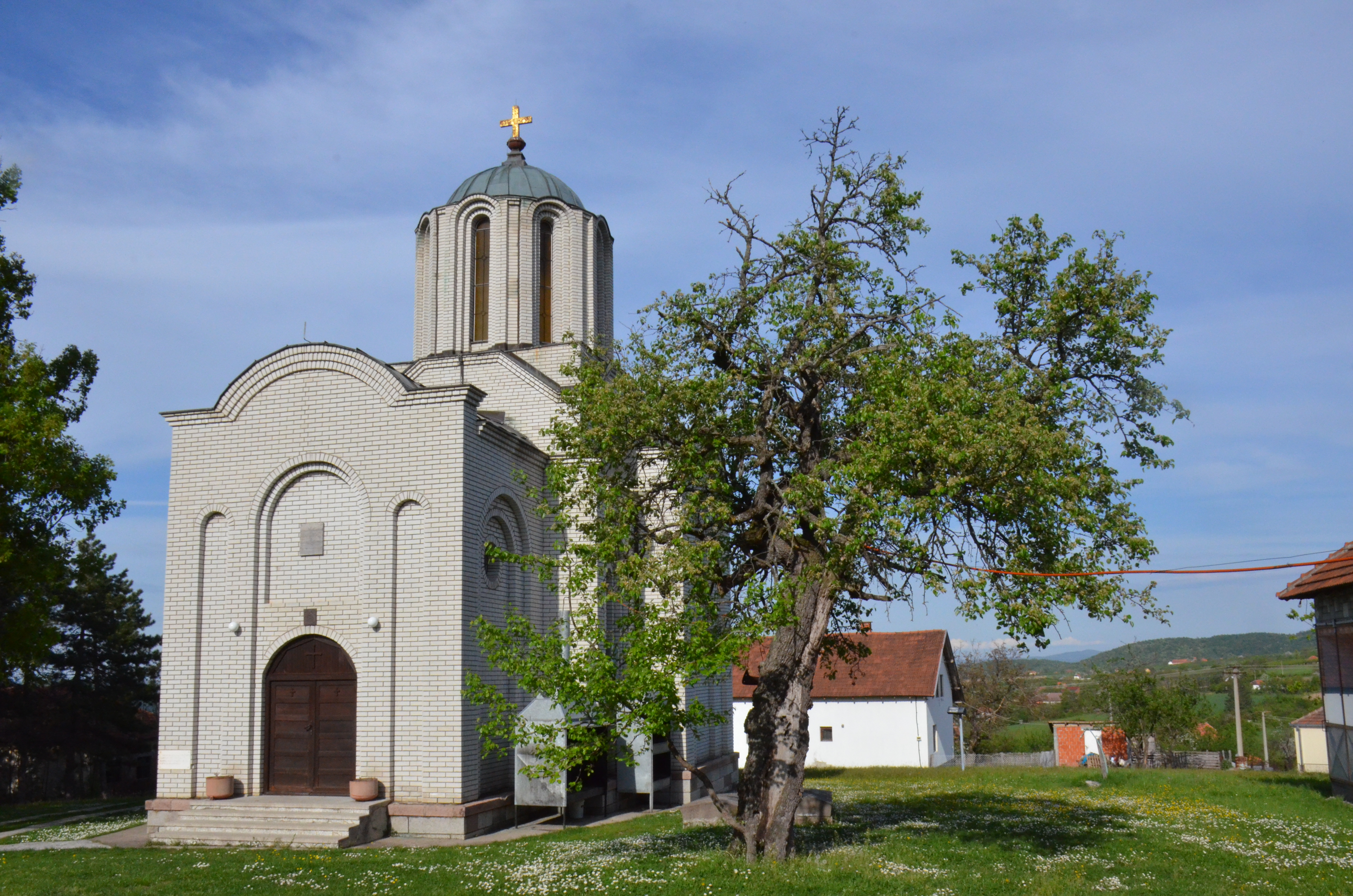 Zapis - Sacred Tree, Pear in village Guncati, municipality Knić, Serbia